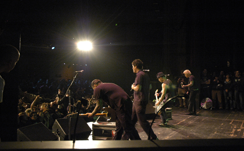 Tiffany HAgler Photography copyright 2006